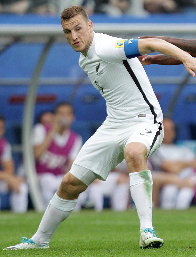 New Zealand VS. Portugal 0 - 4, 24 June 2017